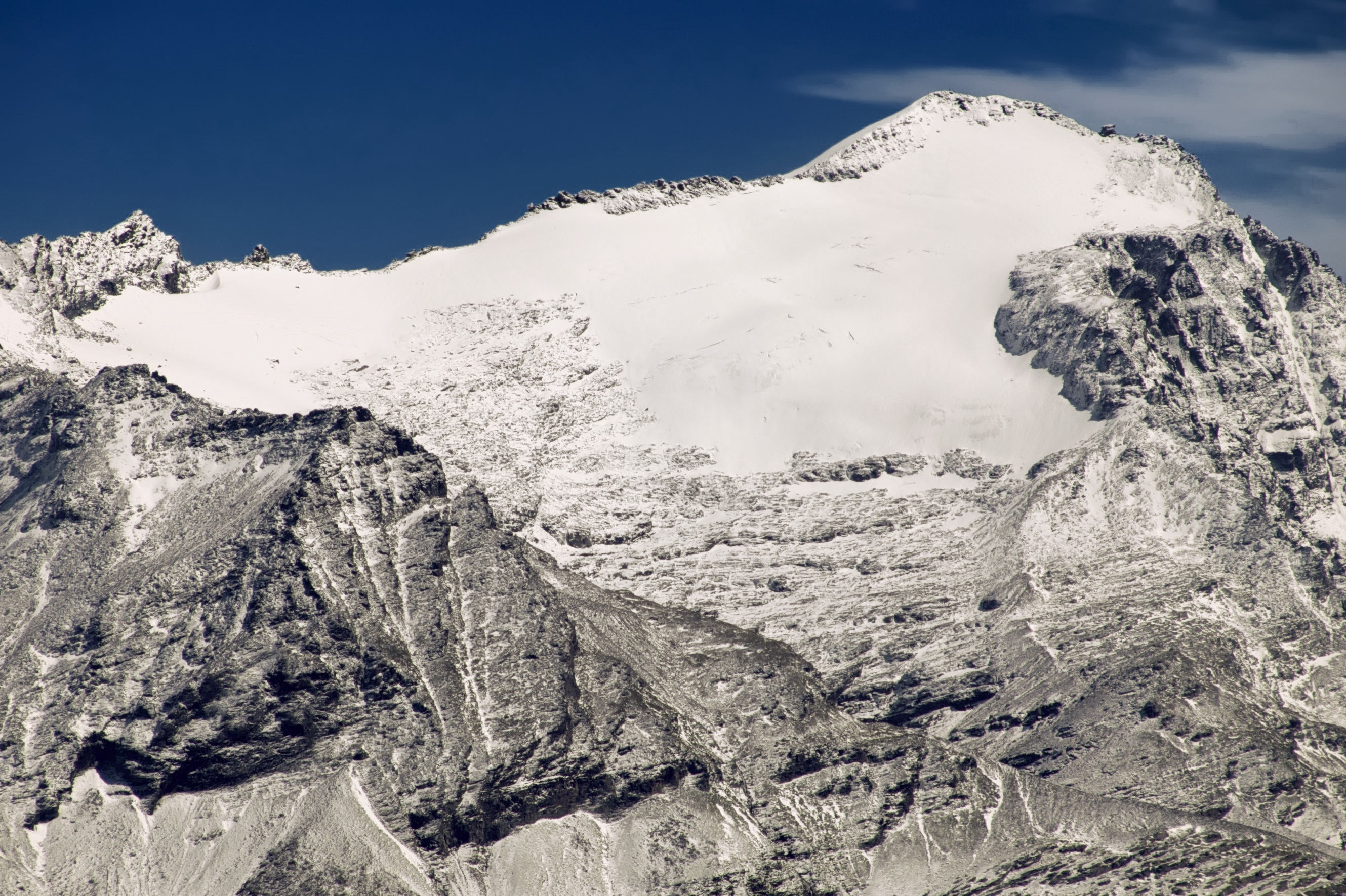 Rheinwaldhorn 3402 m - Switzerland